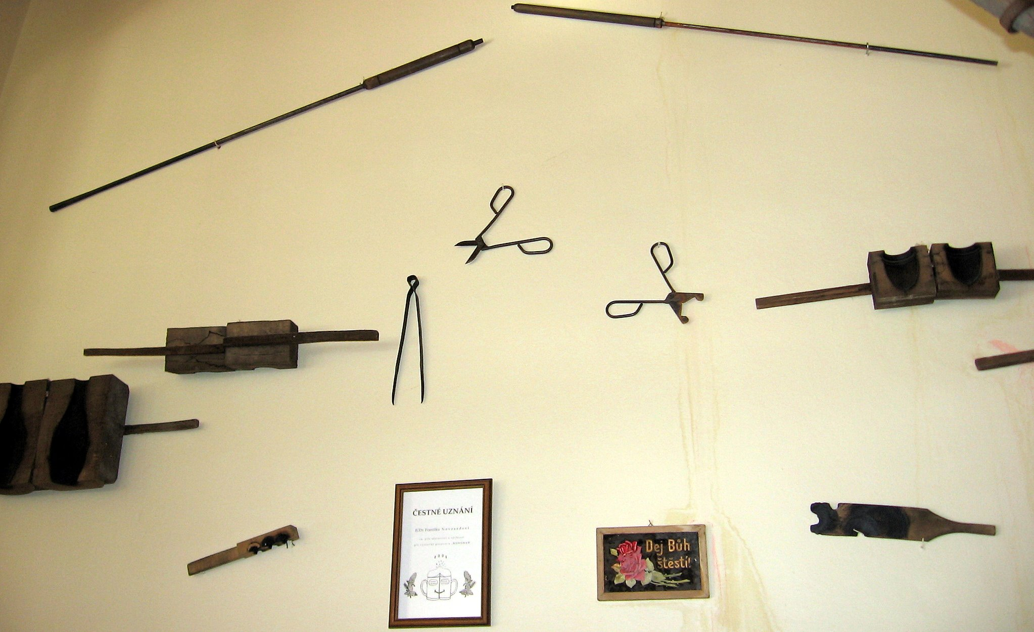 glassblower's tools in glassblowing manufacture (Sklarna Novosad & Syn, erected 1712) in Harrachov, Czech Republic